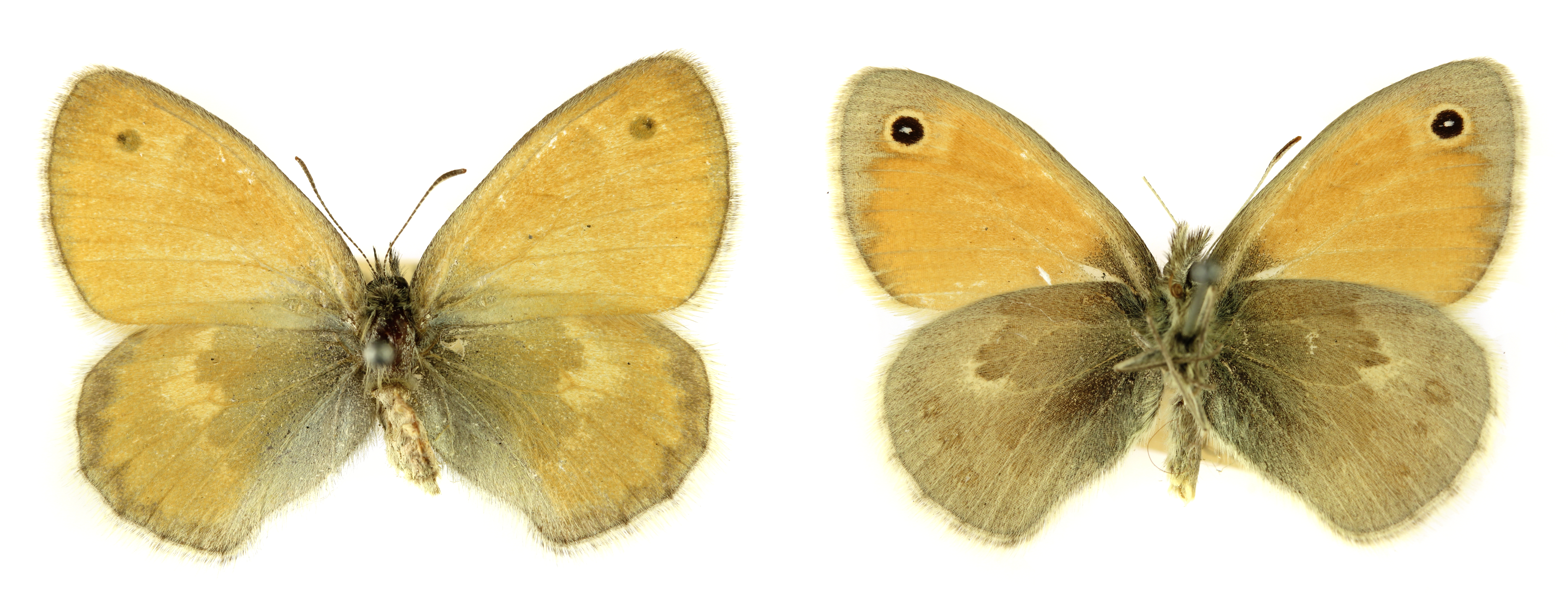 Coenonympha pamphilus internet collections SLU, Uppsala